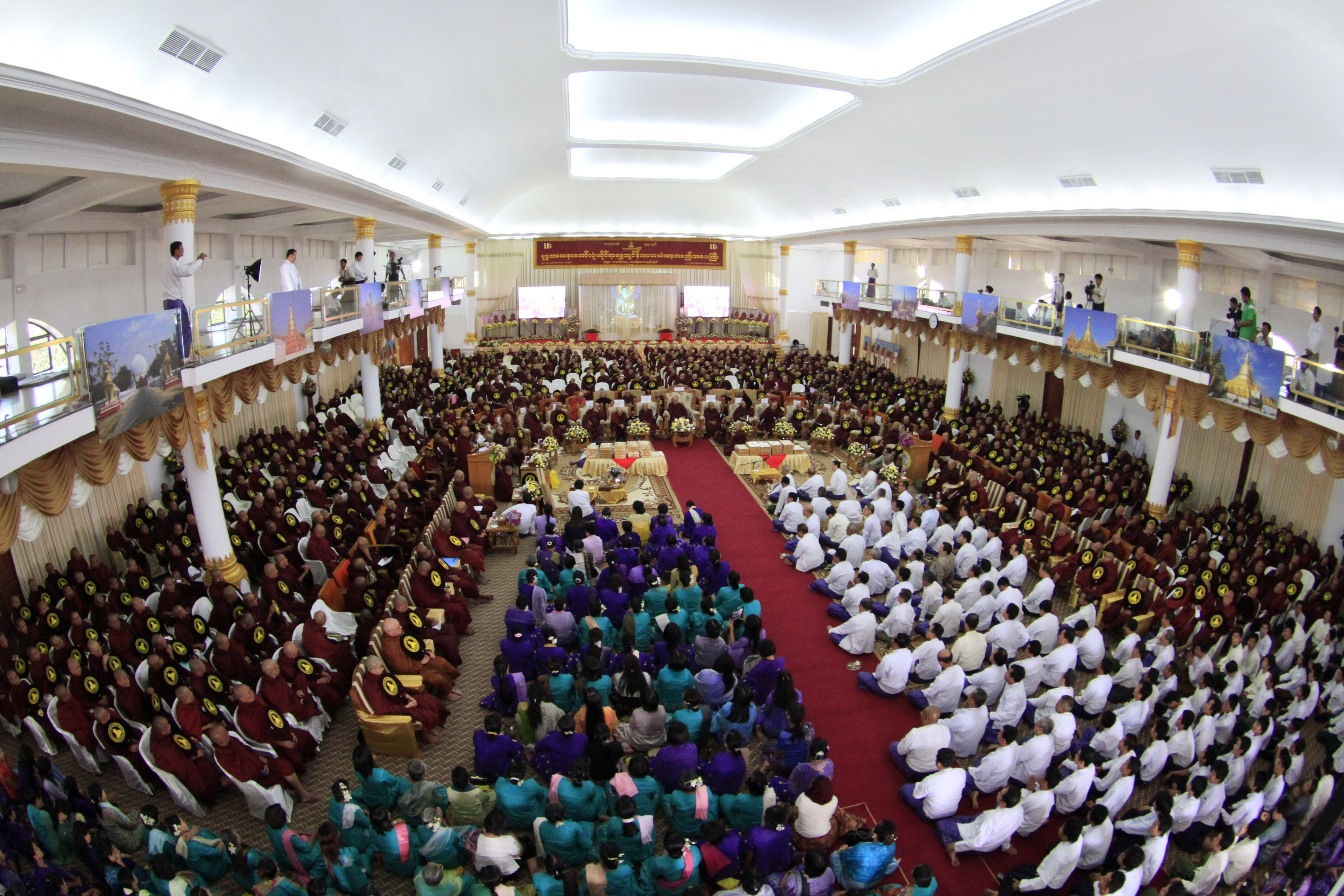 1000 clergy Buddhist monks and faithfuls gather for the 18th Shwe Kyin Nikaya Conference at the compound of Dhammaduta Zetawon Tawya Monastery in Hmawbi township, Yangon, Myanmar, 2 February 2012.မြန်မာဘာသာ: ၂ဝ၁၂ ခုနှစ် ဖေဖော်ဝါရီလ ၂ရက်နေ့ ဗုဒ္ဓသာသနာတော်လုံးဆိုင်ရာ ရွှေကျင်နိကာယ သံဃာ့အစည်းအဝေးကြီးသို့ ရဟန်းအပါး ၁ဝဝဝ ကျော် နဲ့ တပည့်တော်များကို တွေ့ရစဉ်။